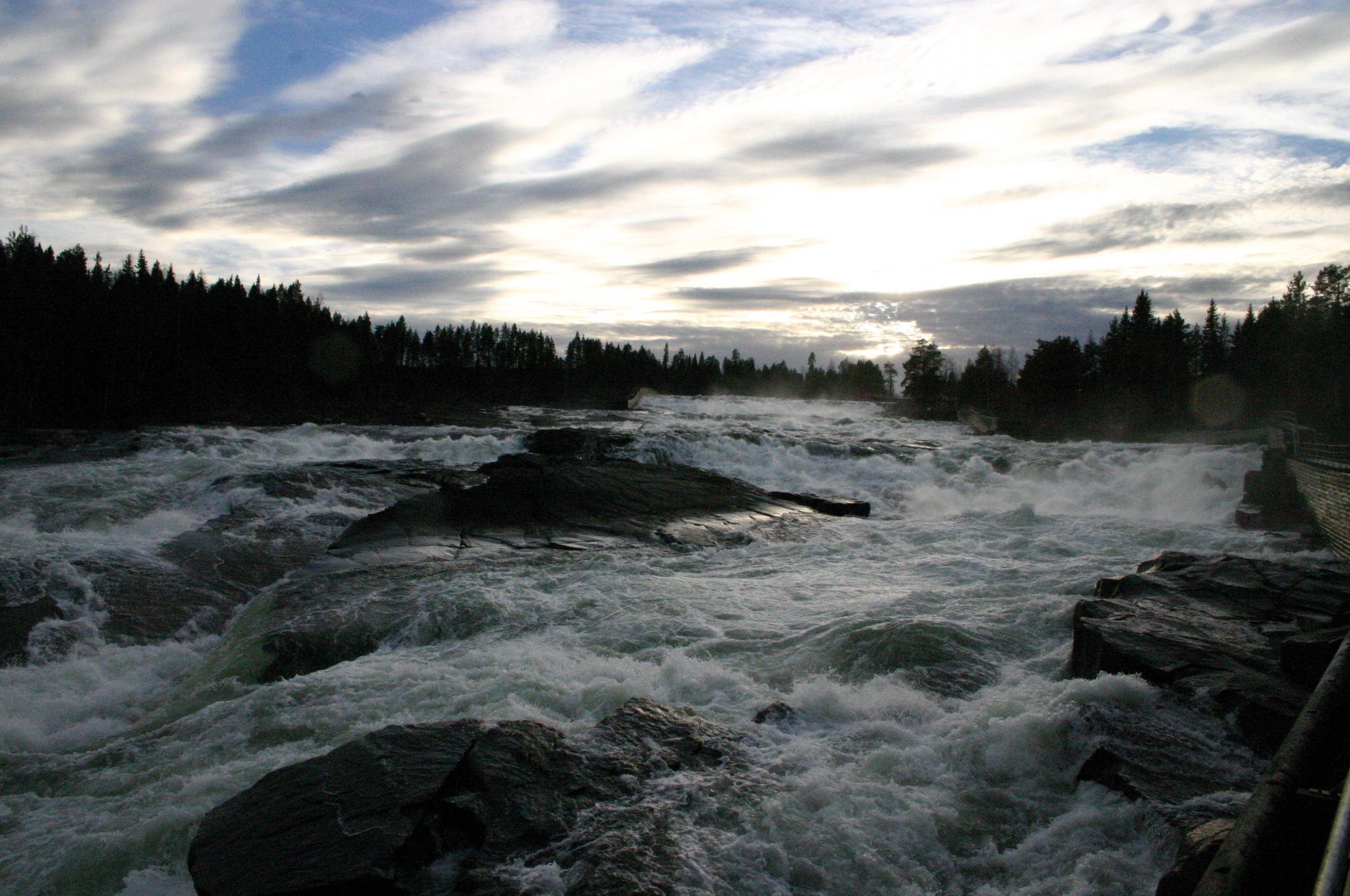 Description: Storforsen rapids near Vidsel, Älvsbyn kommun, Norrbotten, Sweden. source: created on 17.10.2005 by Stephan Herz with Canon EOS 300D